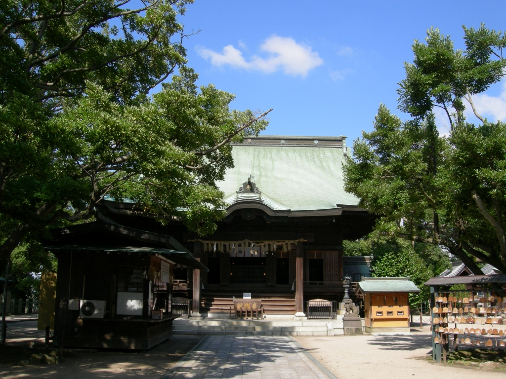 Kurume Suidengu Honden, Kurume, Fukuoka, Japan